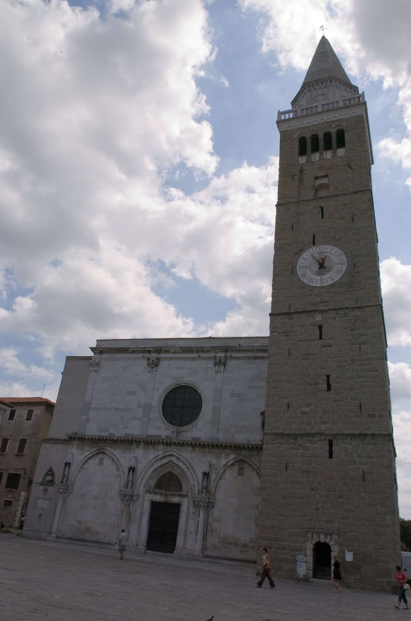 Cathedral in Koper, Slovenia